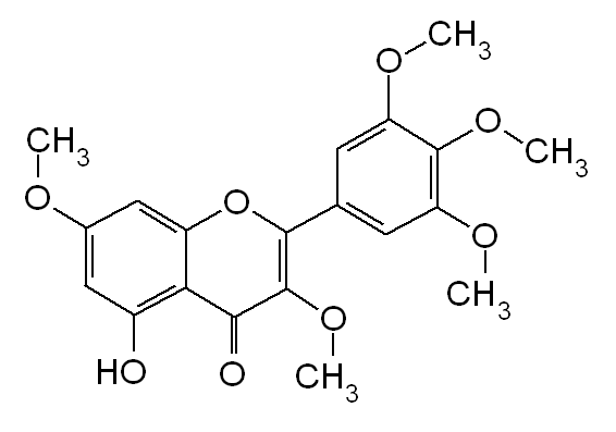 Chemical structure of combretol